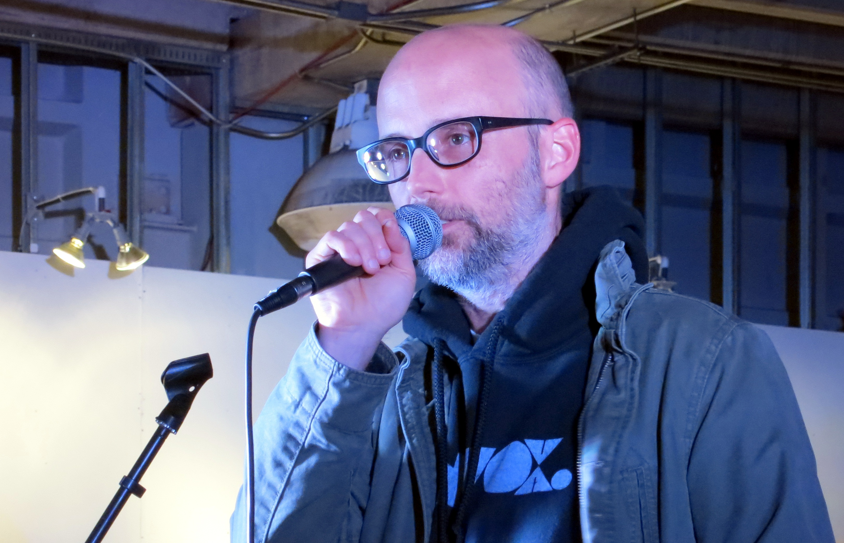 Moby at All in for the 99% at 400 S. La Brea, Los Angeles, CA.